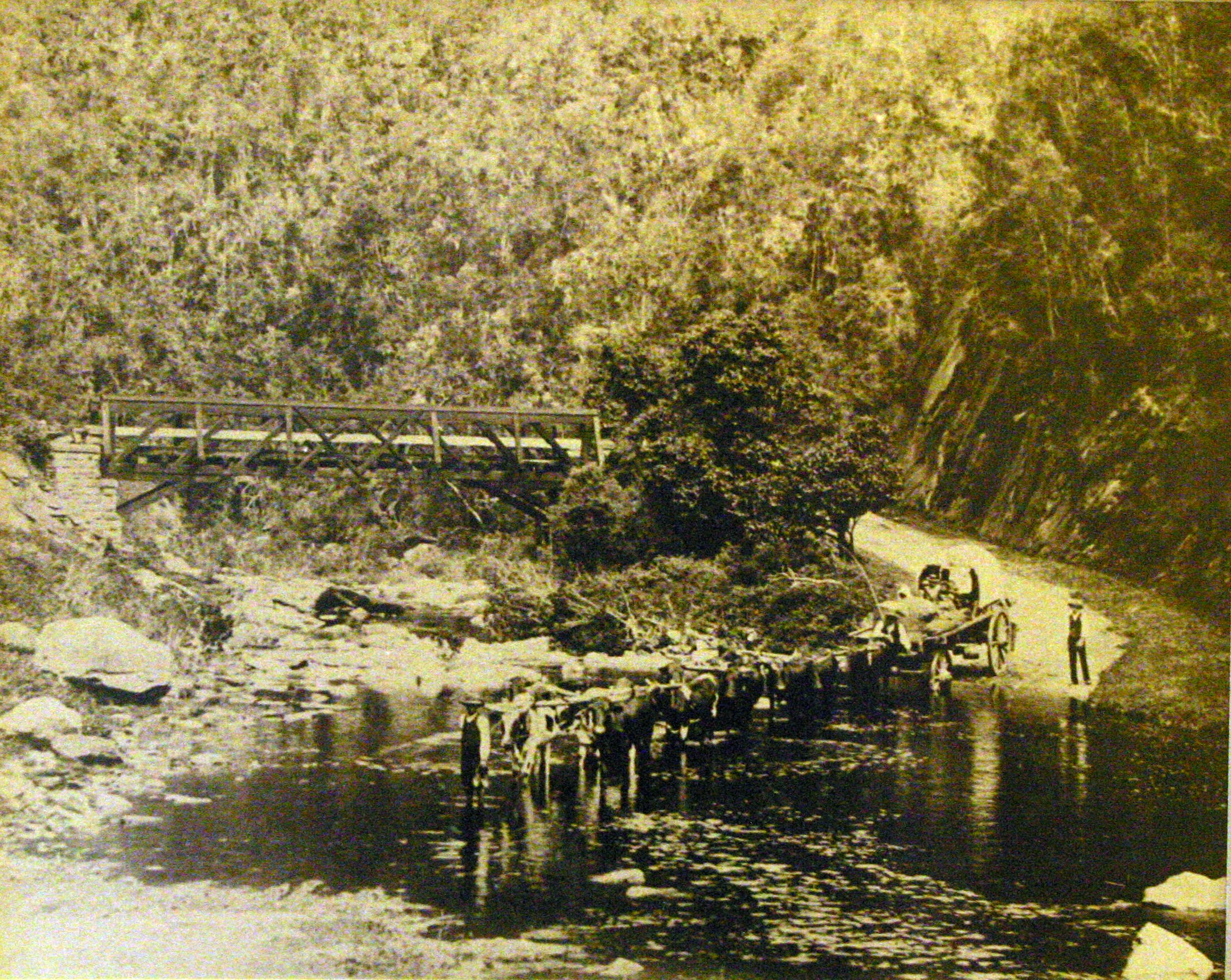 Ox-wagon crossing the Kaaimans River late 1800s.